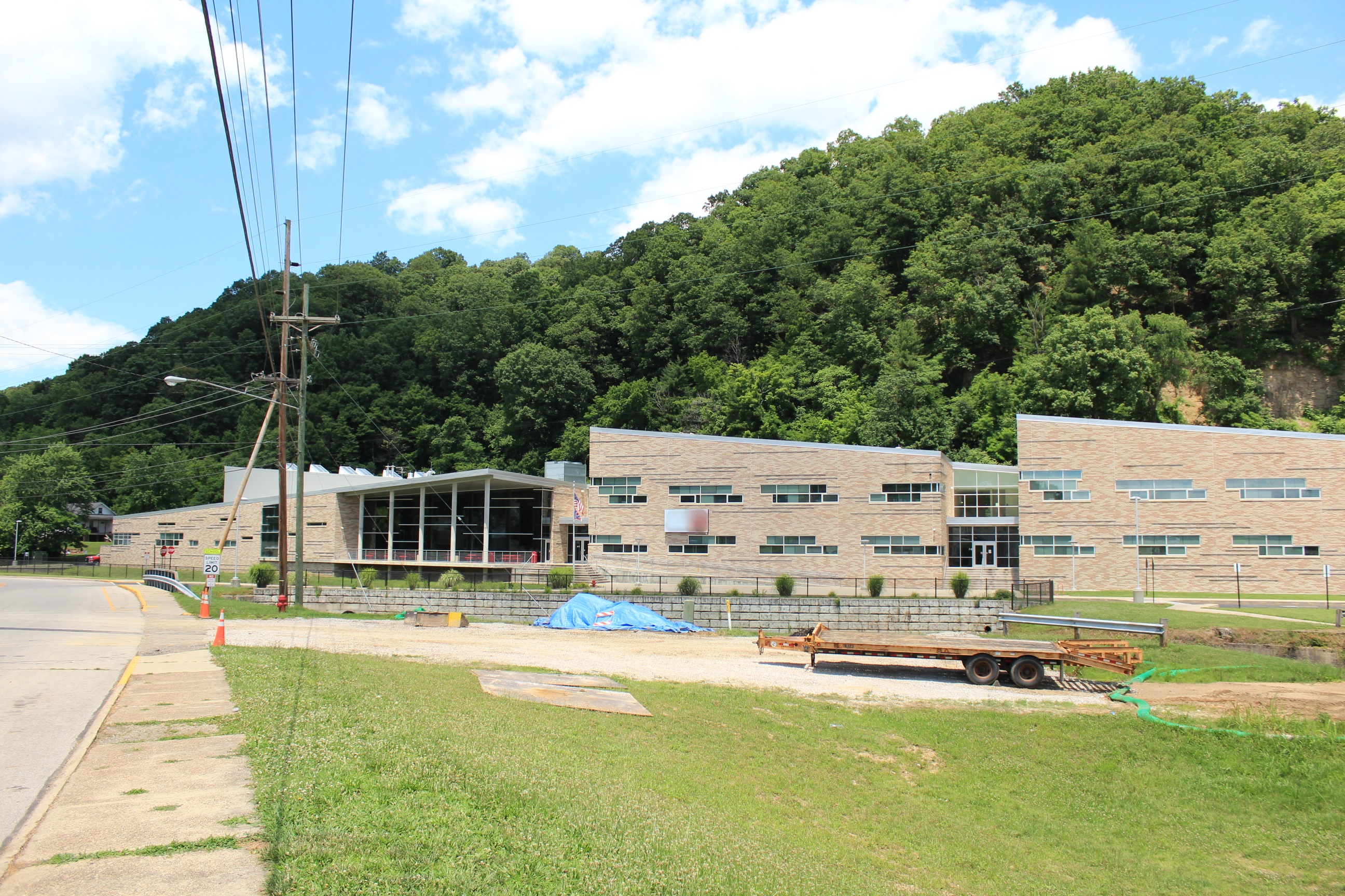 Glenwood High School in New Boston, Ohio viewed from Lakeview Avenue.